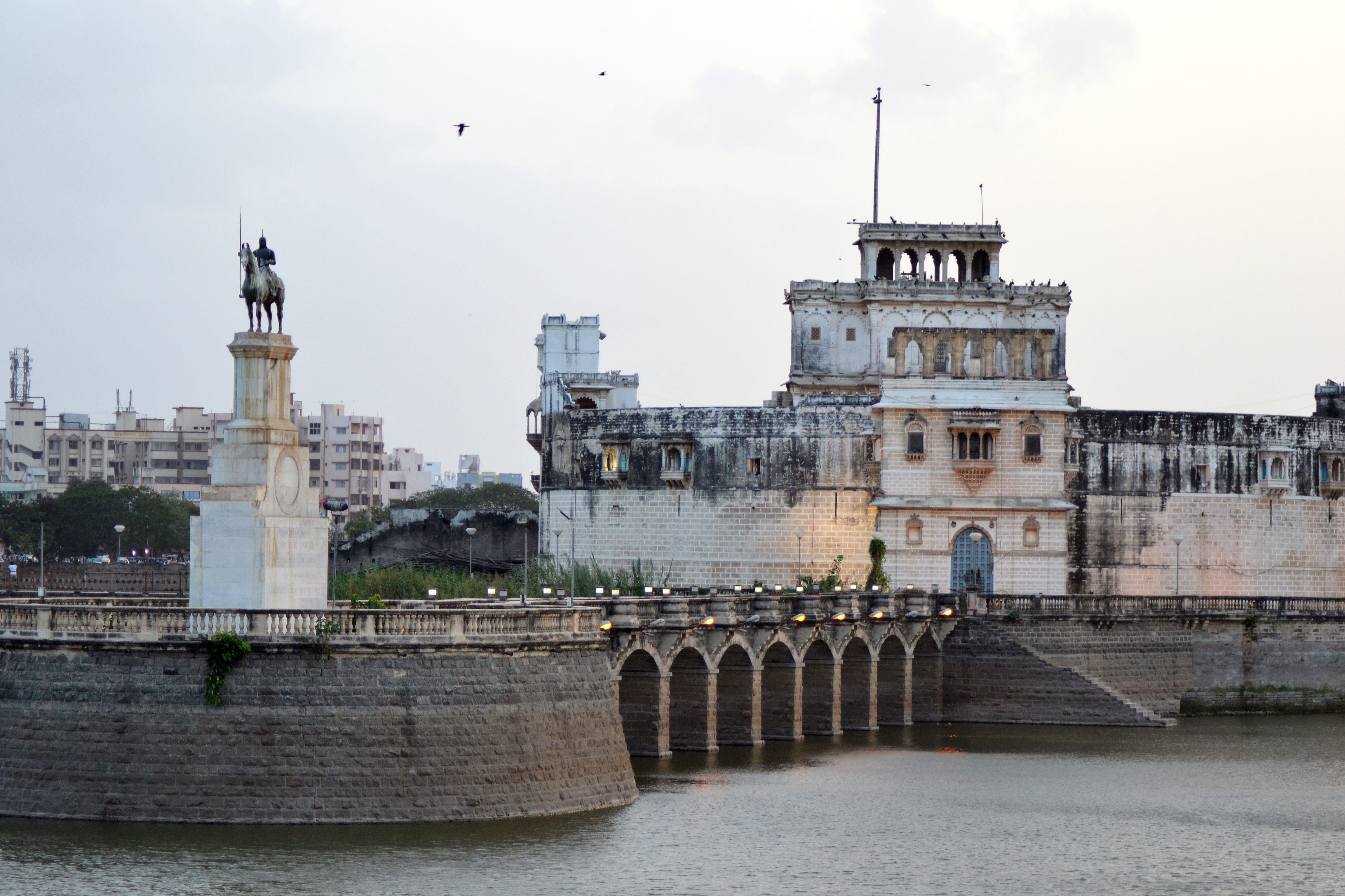 Lakhota Lake Palace in the city of Jamnagar, Gujarat India.